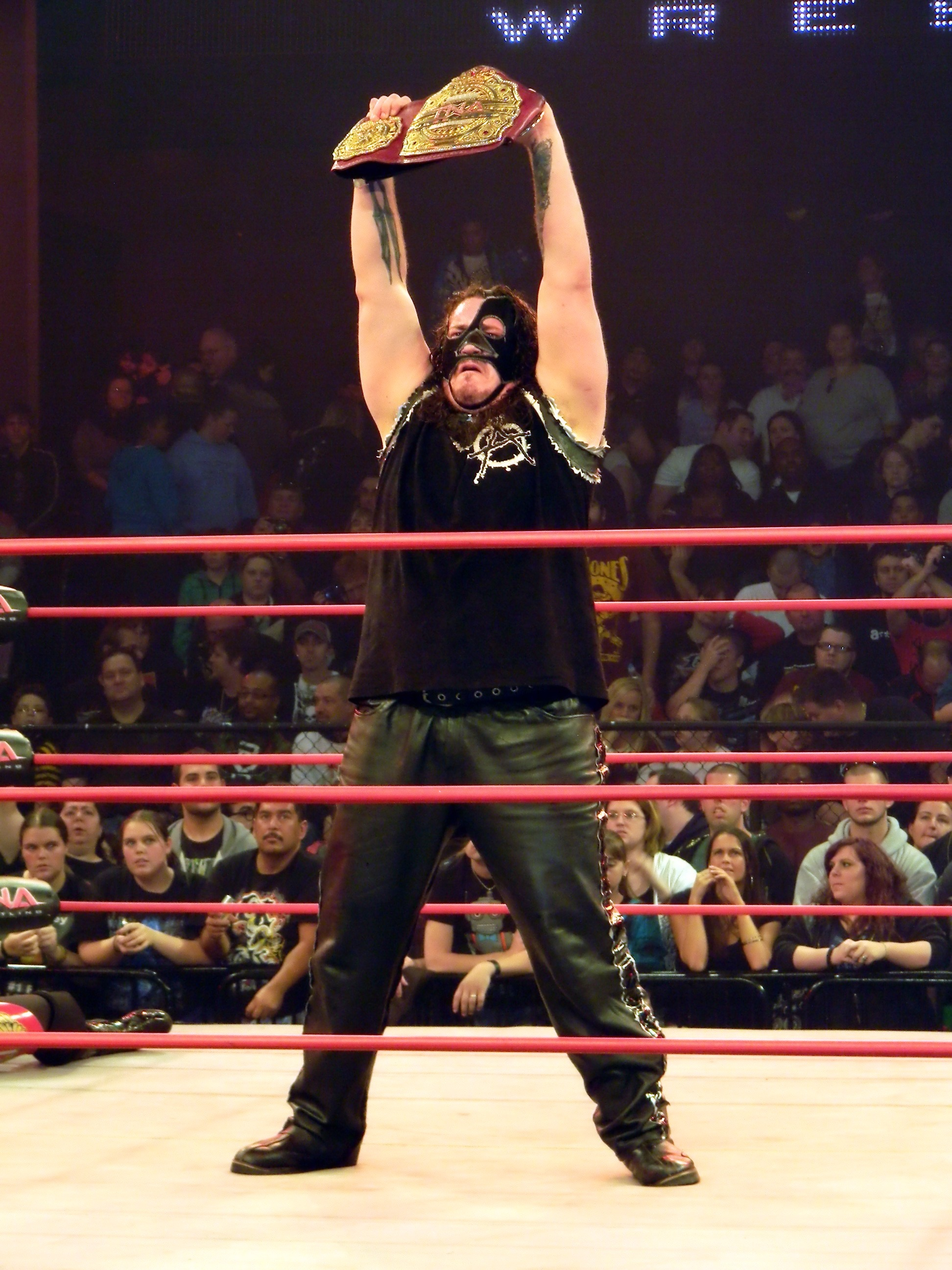 Abyss celebrates with the Television championship after defeating Douglas Williams at Genesis.